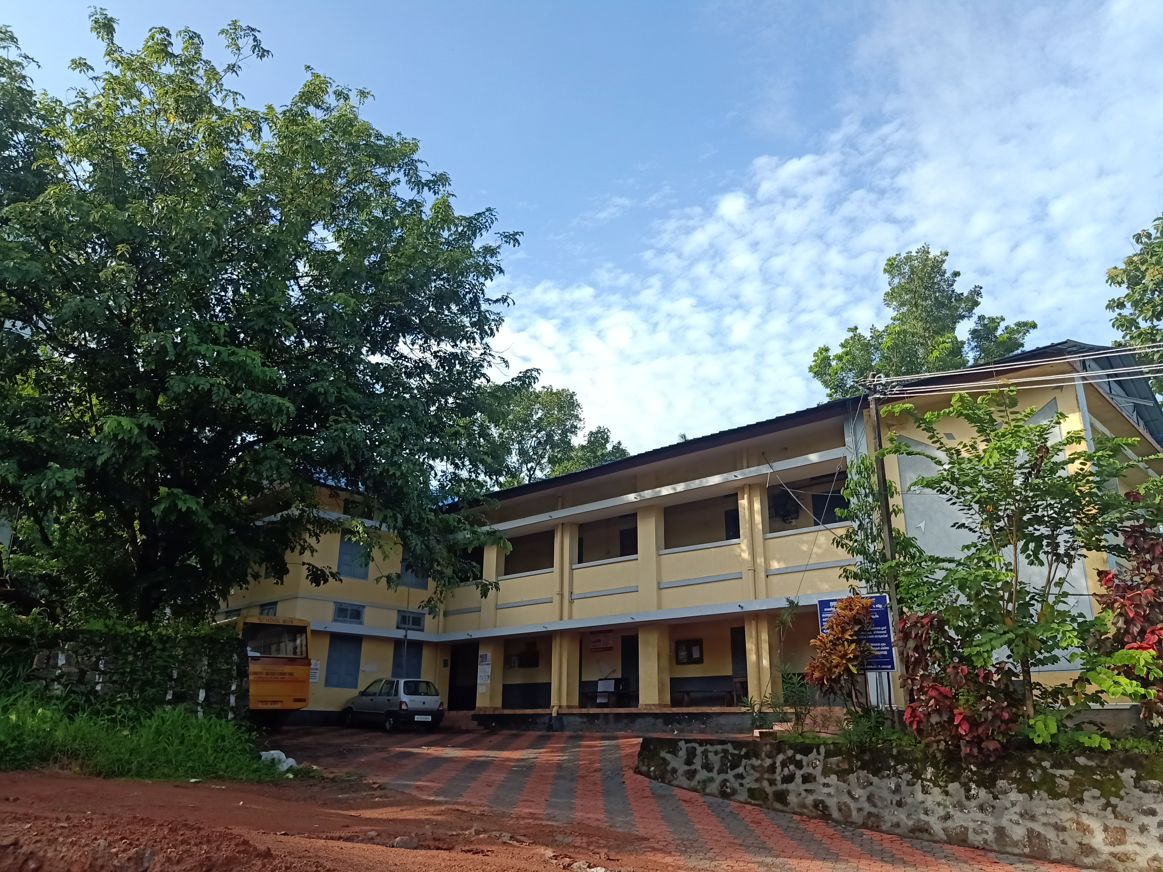 St Georges GVHSS Puthuppally Main Building